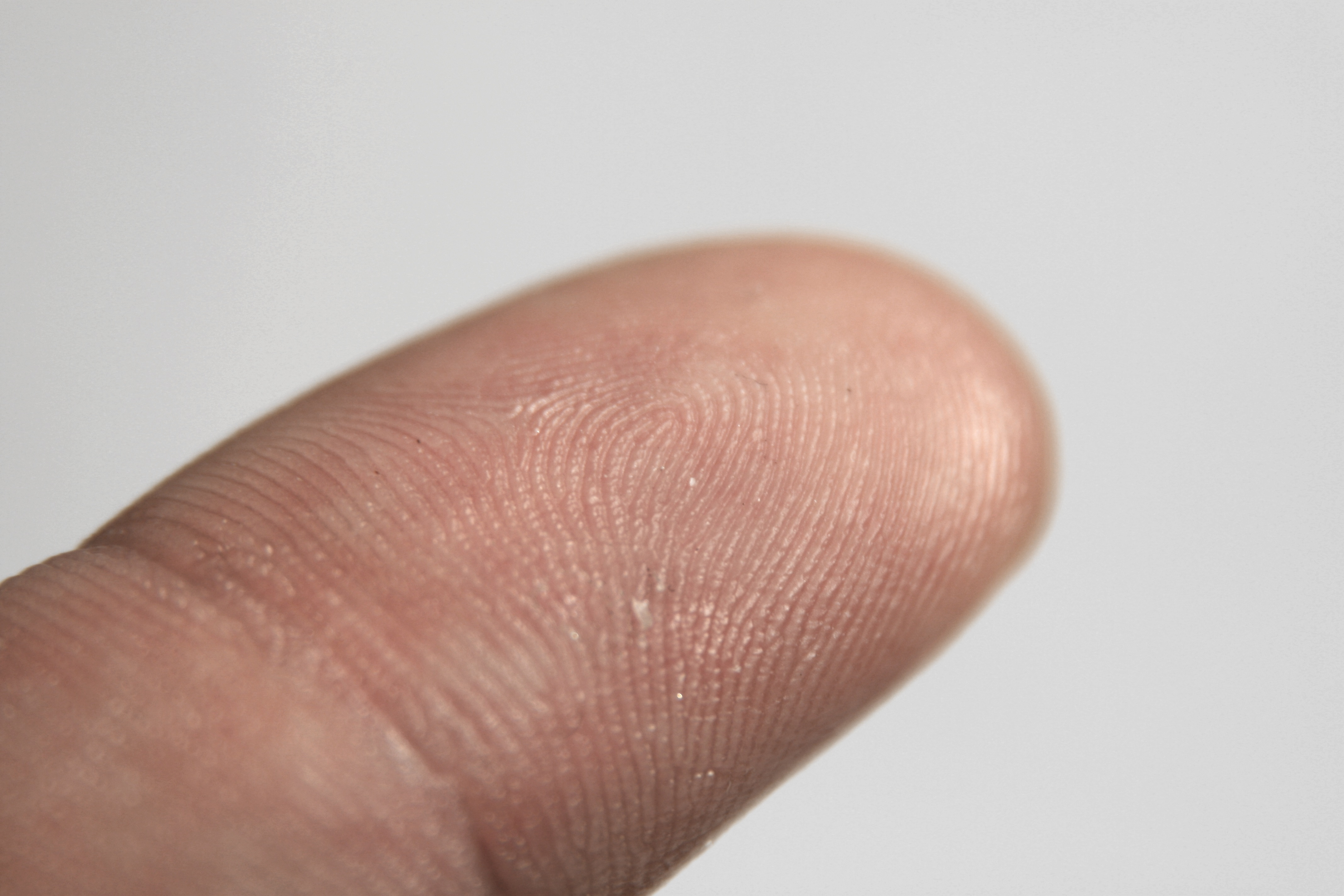 A macro shot of a fingerprint.